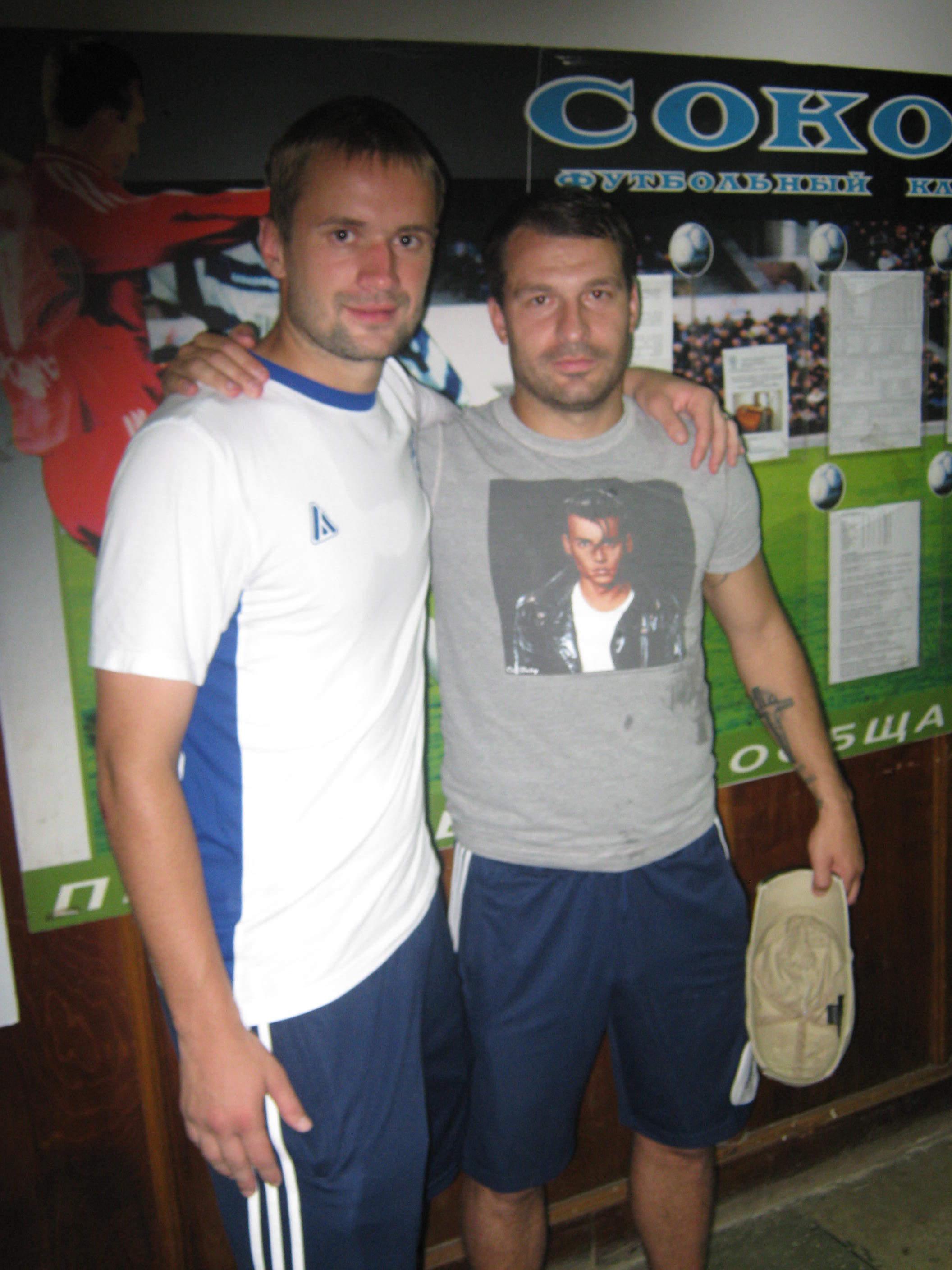 Yevgeni Nikolayevich Shcherbakov (on the left) and Andrei Sergeyevich Govorov (on the right), football players of PFC "Sokol" Saratov.